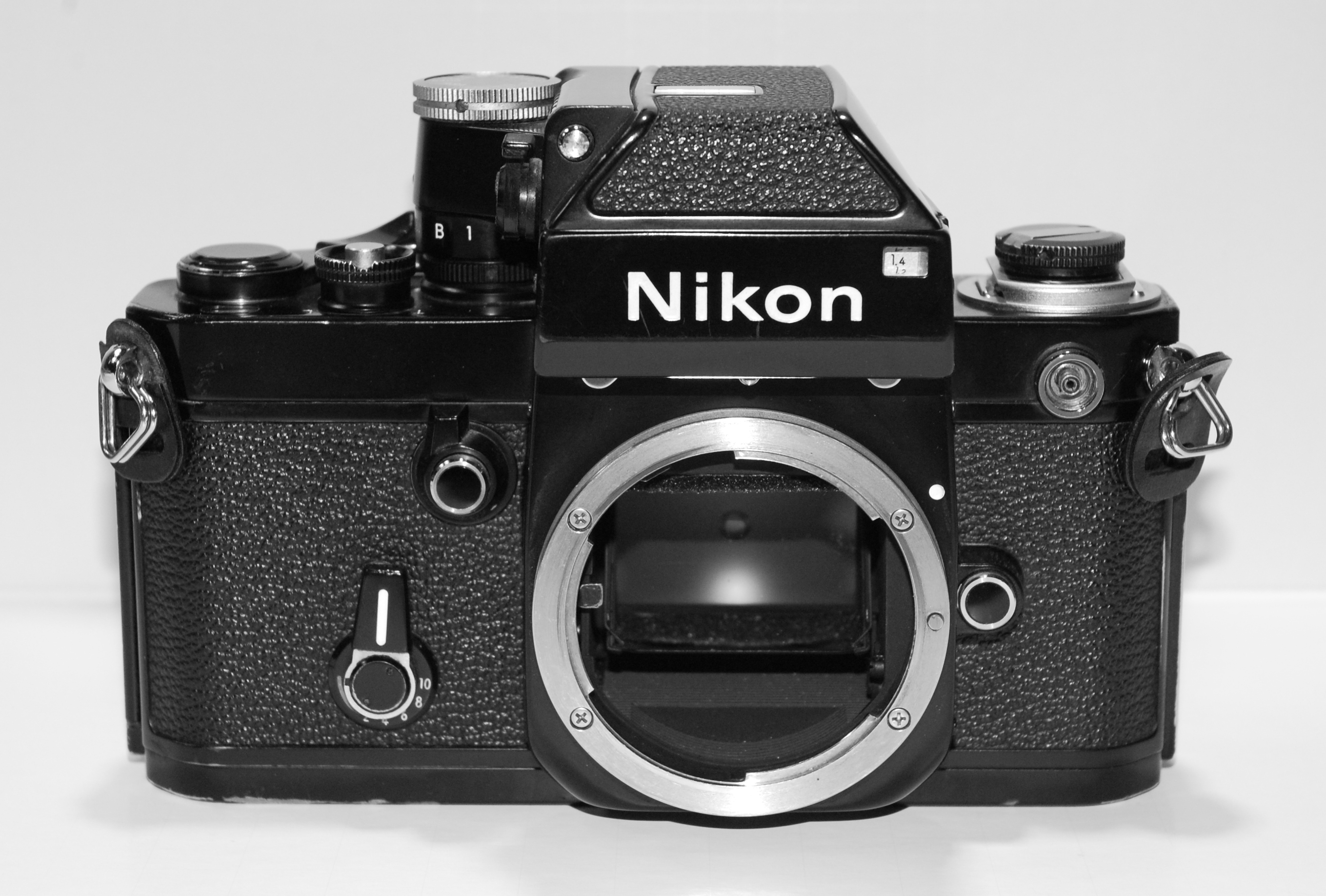 1975 Nikon F2 Photomic (black) body with a DP-1 finder.